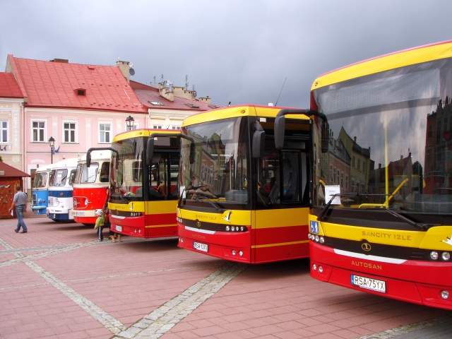 Autosan buses in Sanok, Poland. From right to left: Autosan Sancity 12 LE bus (reg. RSA 75YX, built 2009); Autosan Sancity 12 LF bus (reg. RSA 13XV, built 2010) and Autosan Sancity 10 LF bus (reg. RSA 05718, built 2011) or Autosan Sancity 18 LF bus (reg. RSA 03403, built 2010).